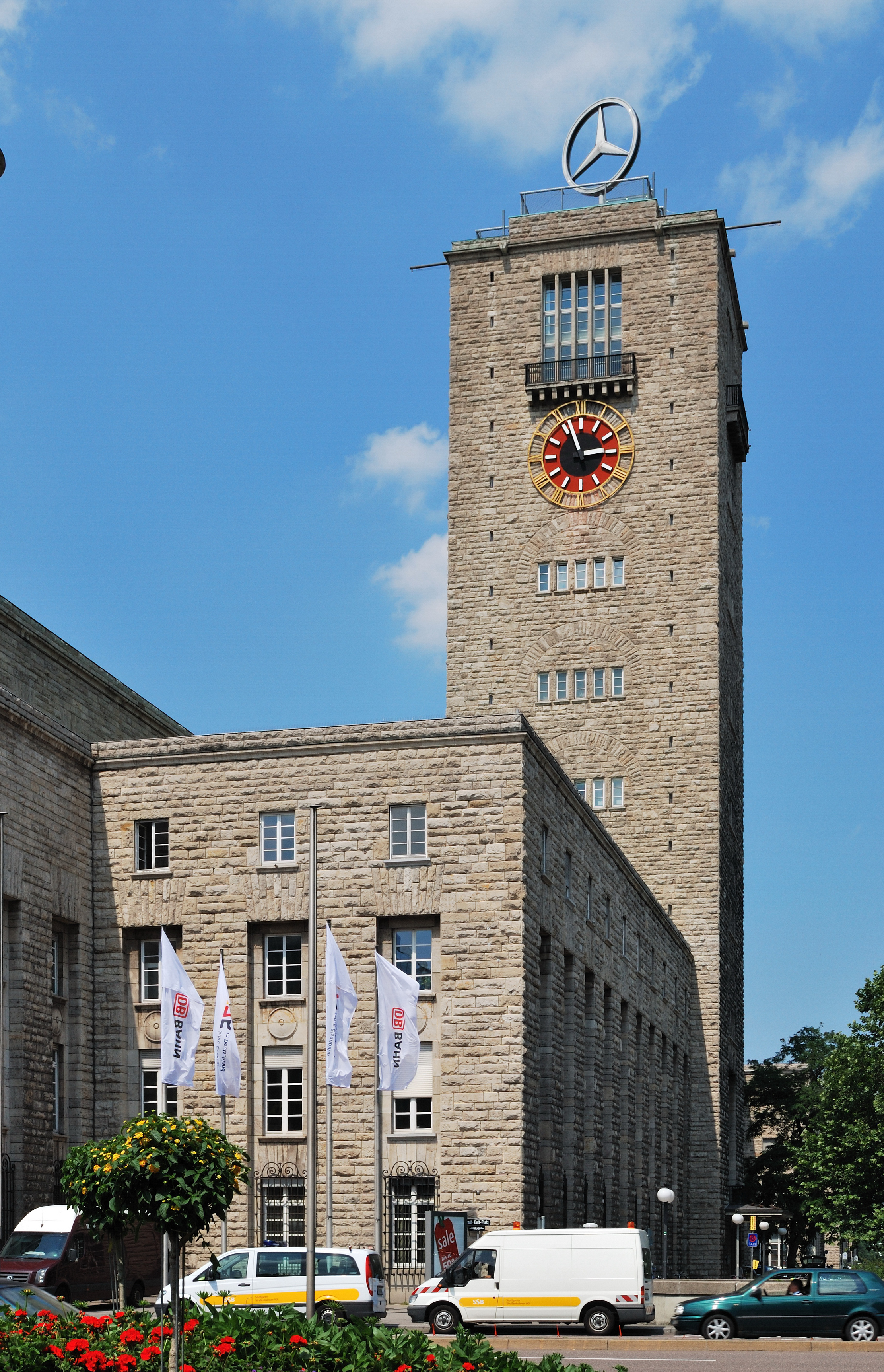 Tower of the Stuttgart Central Station.